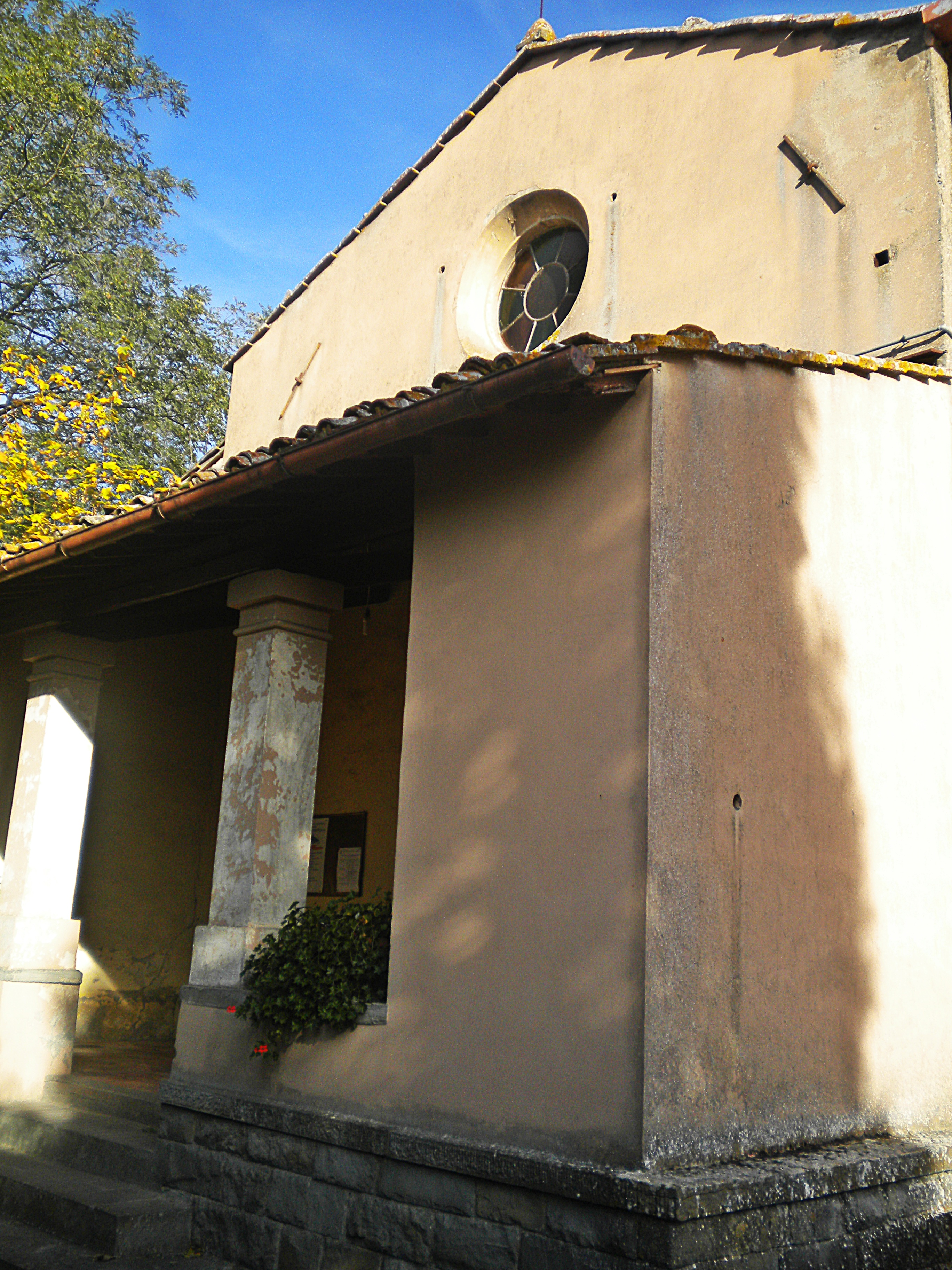 facade(Saints Michael and Gavino)